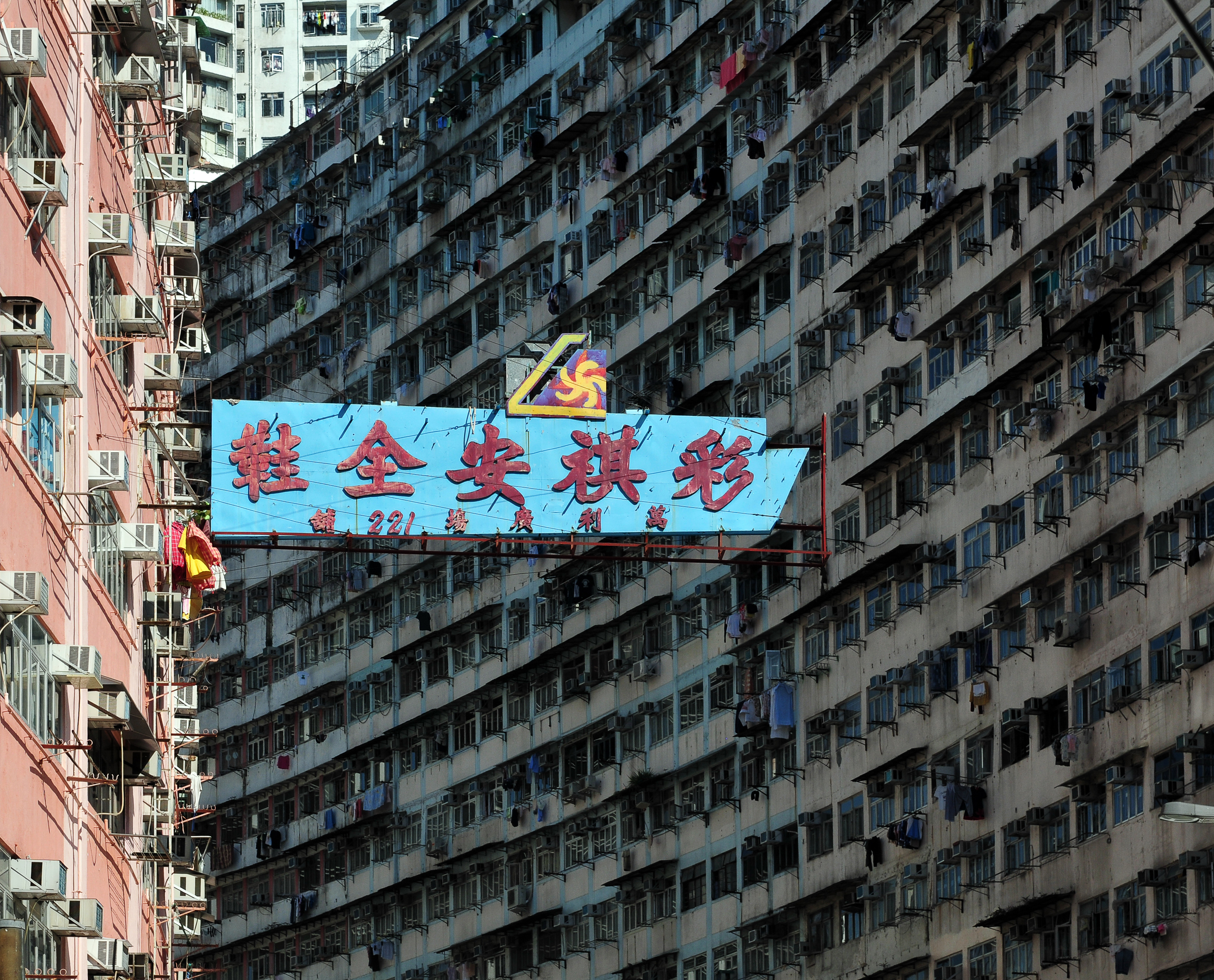 Buildings in King's Rd, Quarry Bay, Hong Kong Island